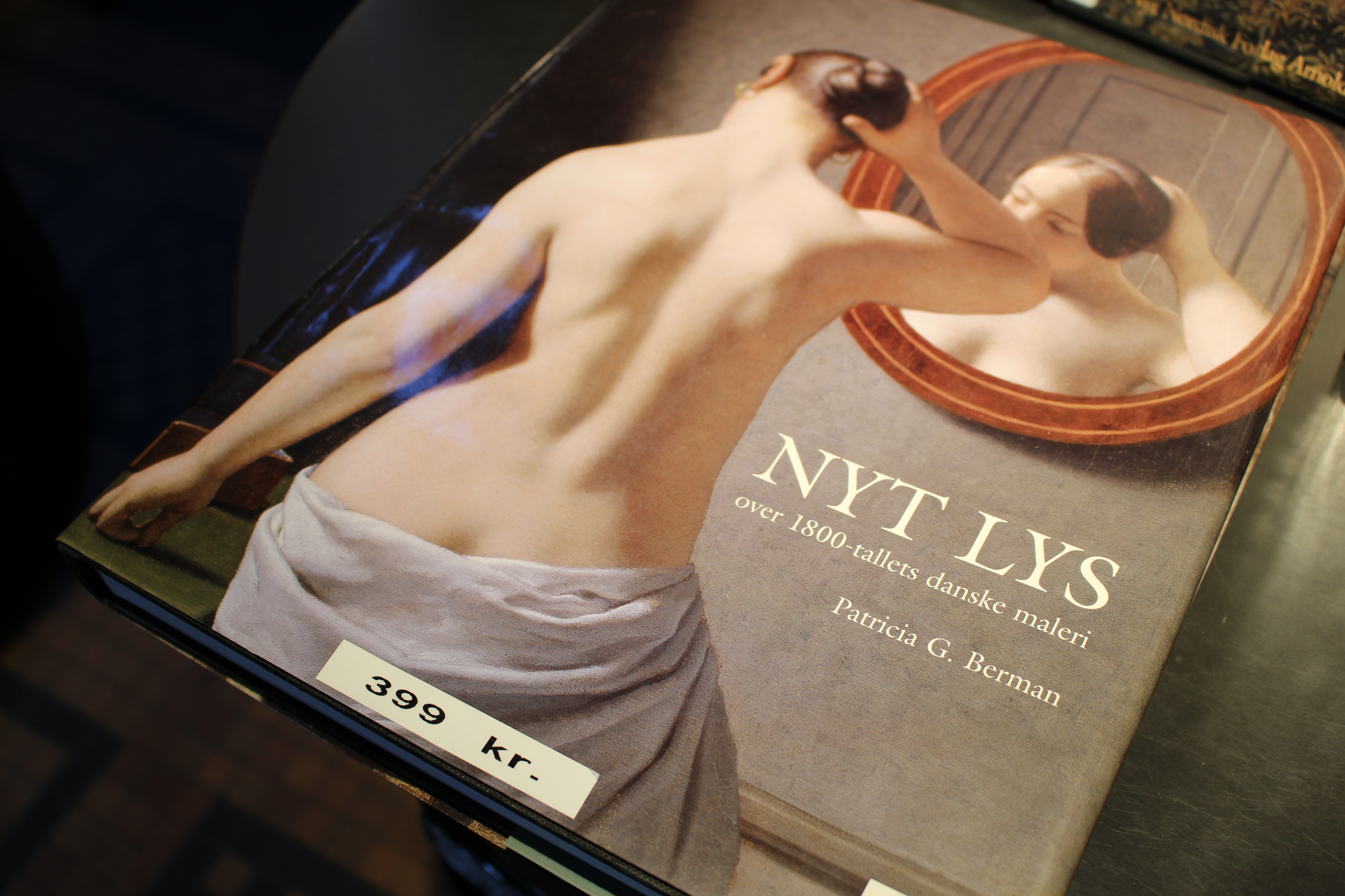 Photo of book "Nyt lys over 1800-tallets danske maleri" by Patricia G. Berman with cover showing the painting by Eckersberg "A nude woman doing her hair before a mirror". At Thorvaldsens Museum